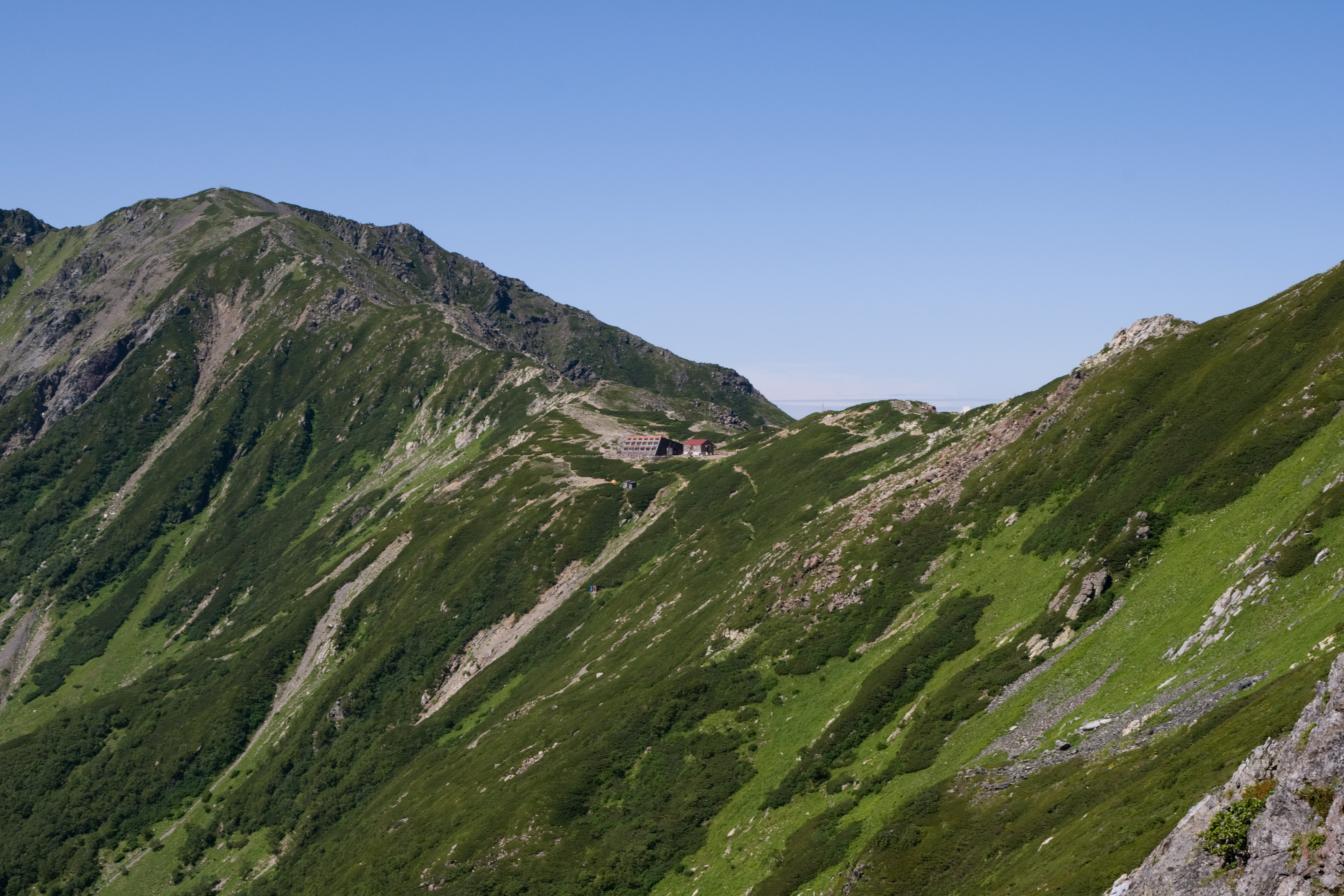 Kitadake hut (Kitadake-sansou 北岳山荘) as seen from Happombanokoru, Mts.Akaishi, Honshu, Japan.